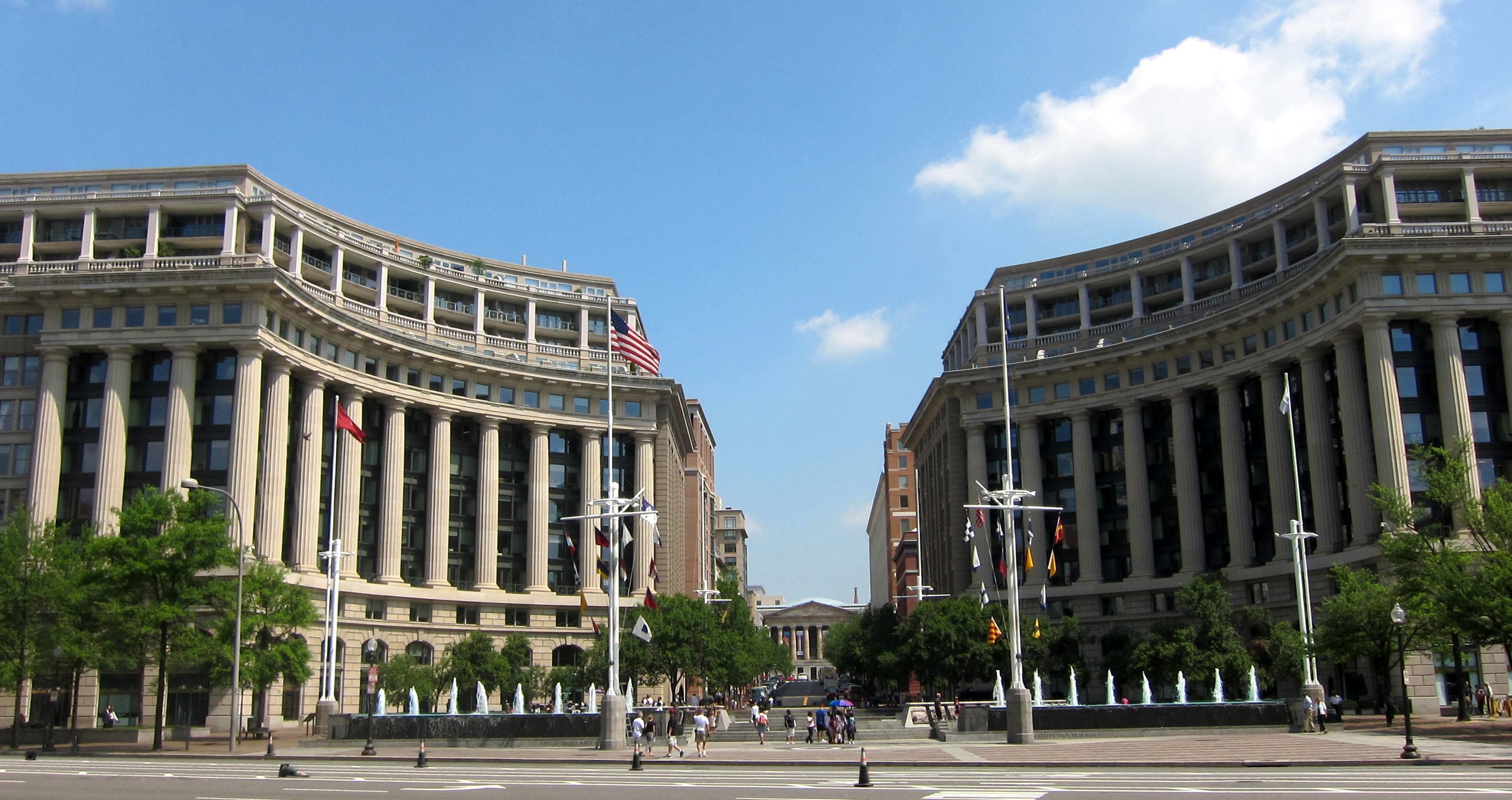 The United States Navy Memorial, located on the 700–800 blocks of Pennsylvania Avenue, N.W., in the Penn Quarter neighborhood of Washington, D.C.